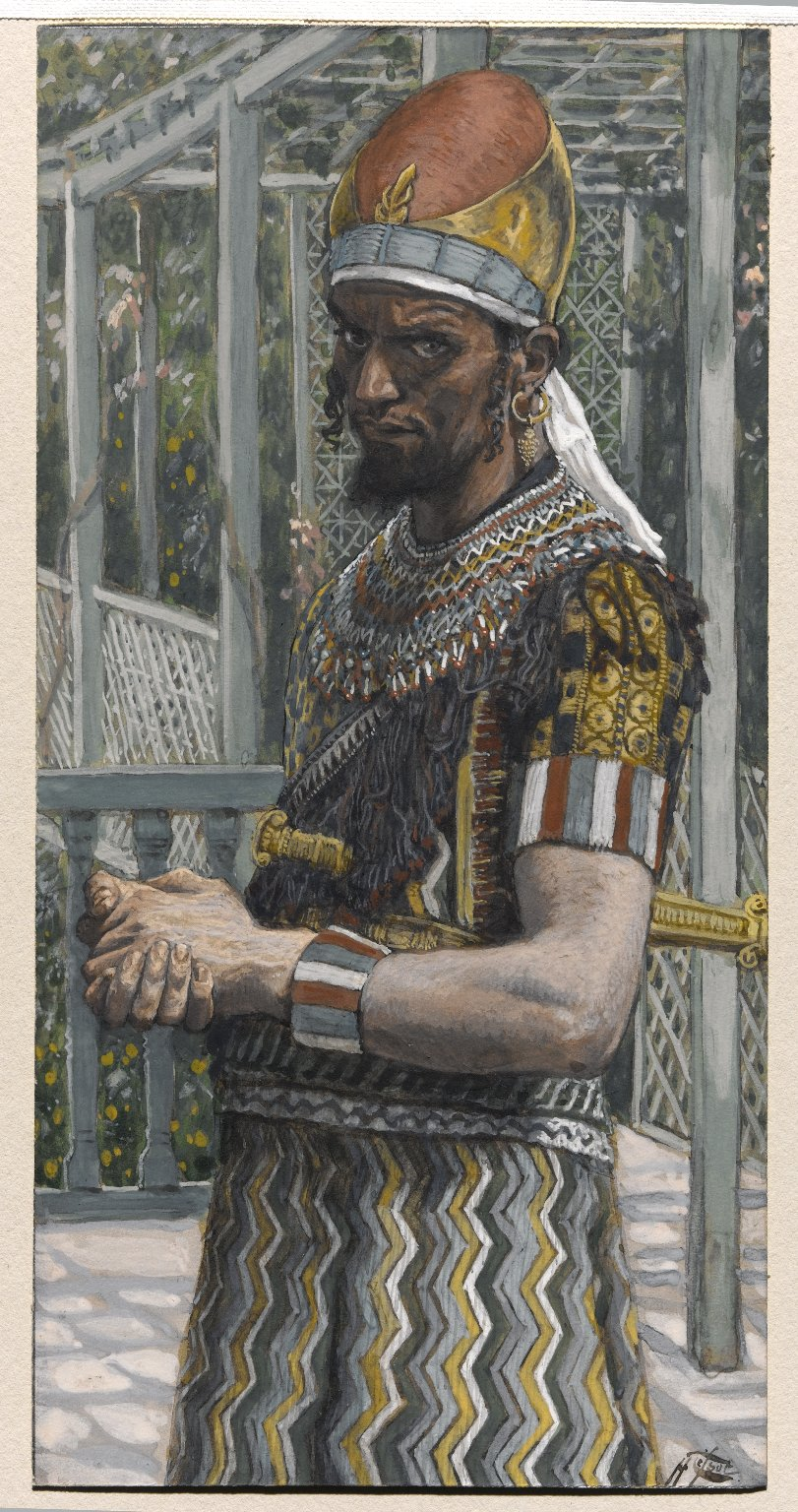 Herod the Great